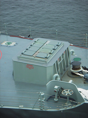 HMAS Sydney was the first ship to be upgraded in the Australian Navy's frigate modernization programme. It received a new eight cell Mark 41 mod 16 Vertical Launch System for Evolved Sea Sparrow Missiles for anti-missile and anti-aircraft defence.